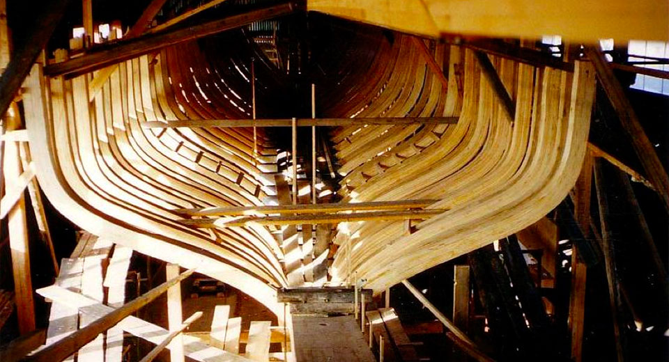 Britannia hull being built in the Solombala shipyard, Arkhangelsk, Russia